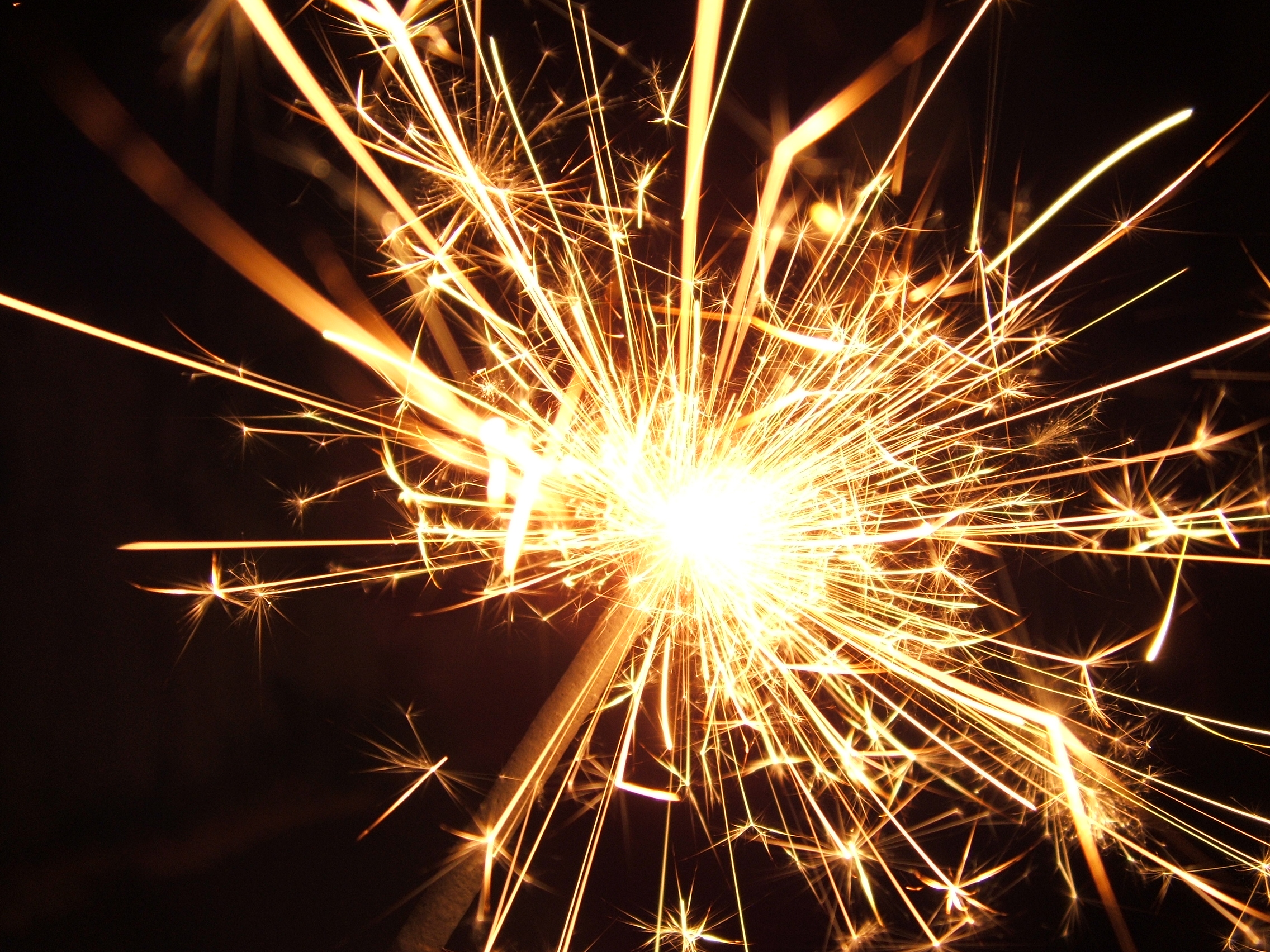 Sparkler, violent reaction (guy fawkes)